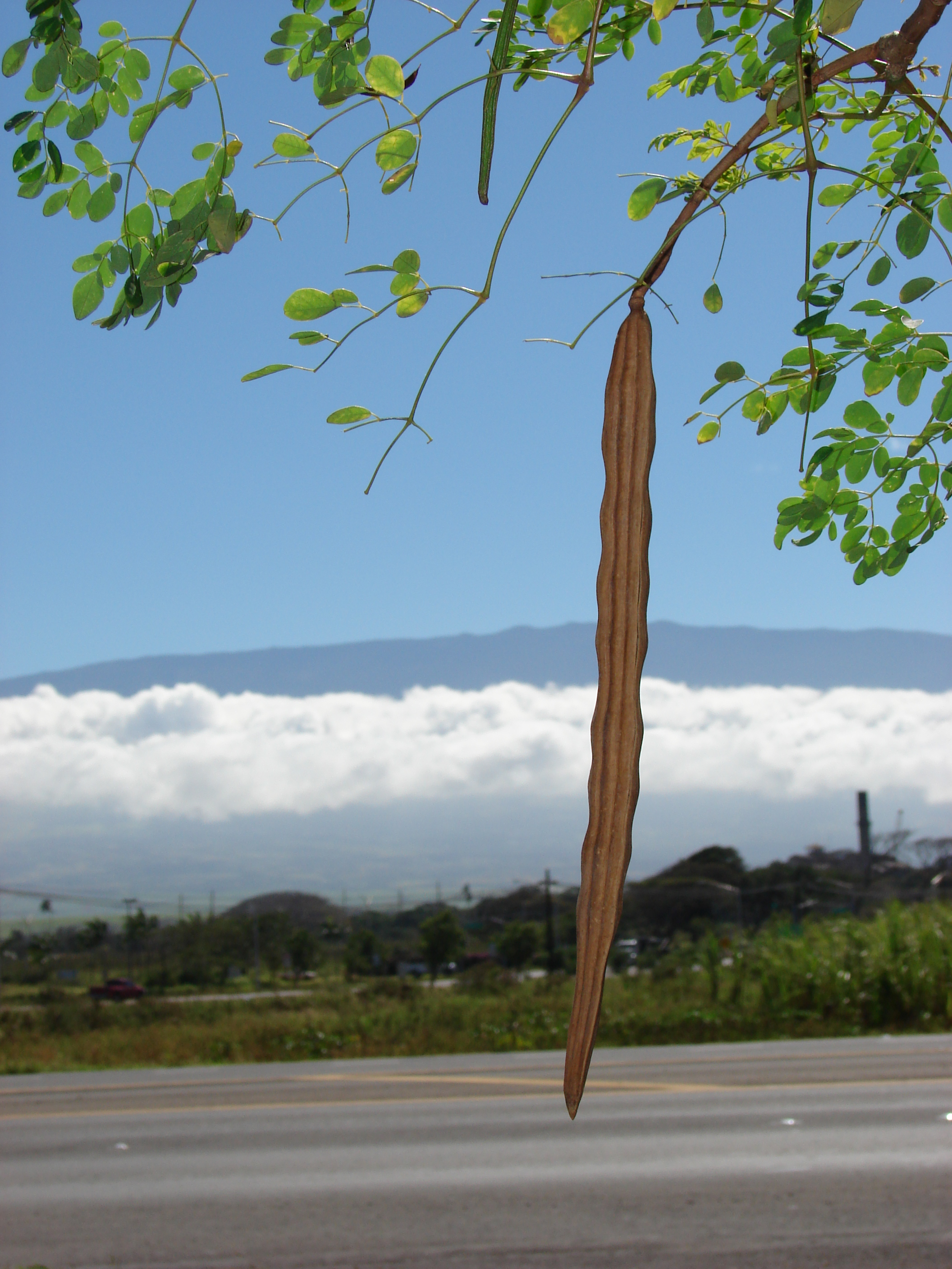 Moringa oleifera (pod view Haleakala). Location: Maui, Dairy Rd Kahului